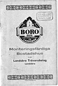 Katalog från Landsbro Trävarubolag i Småland. Företaget var först med en medveten marknadsföring genom kataloger. Företaget, som tillverkade trähus under varunamnet Boro-hus, startade hustillverkningen 1923 och presenterade sin första katalog 1924.